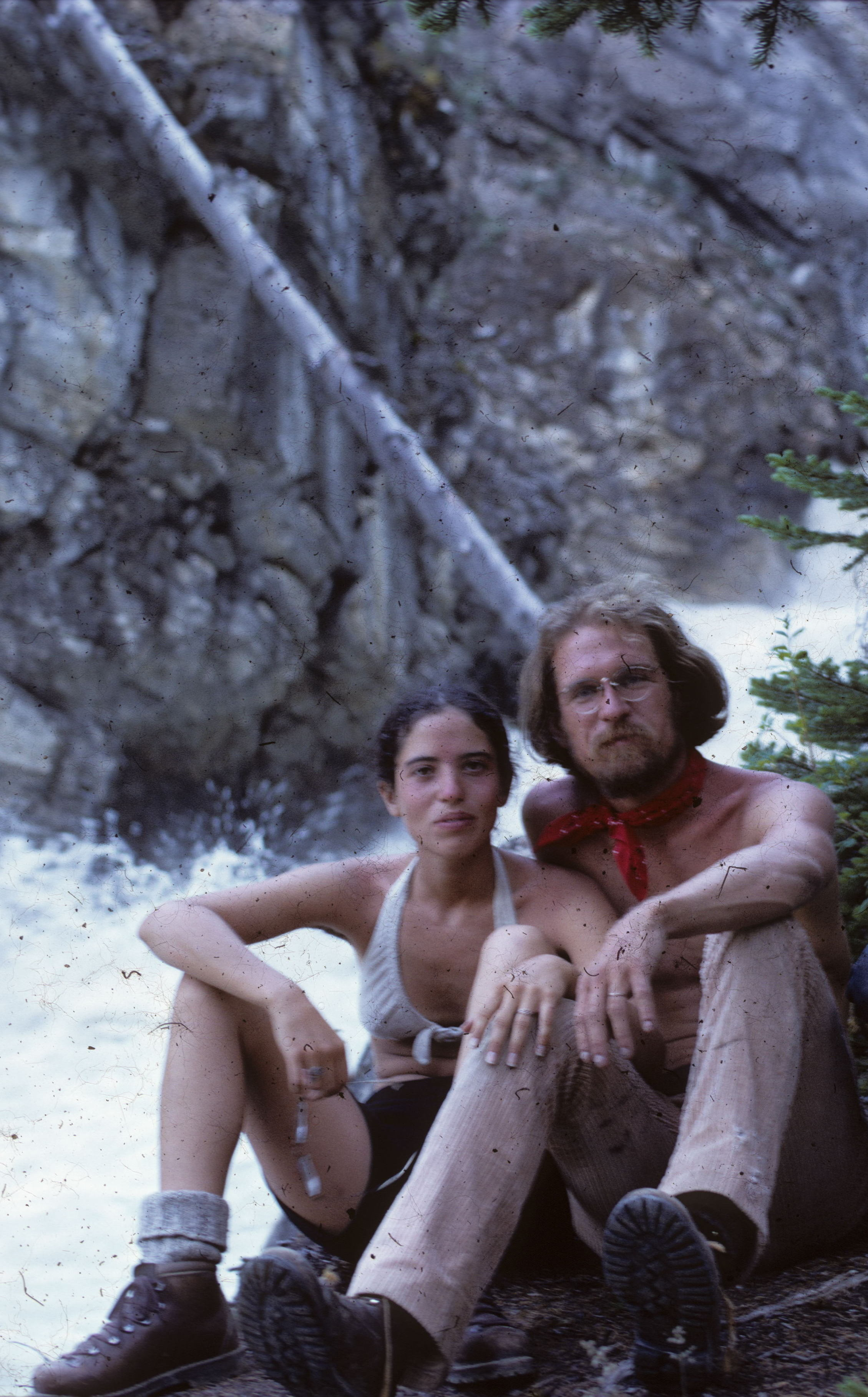 Jack & Ellen Contini-Morava, near the Burgess Shale, Yoho Park (British Columbia, Canada), 1971